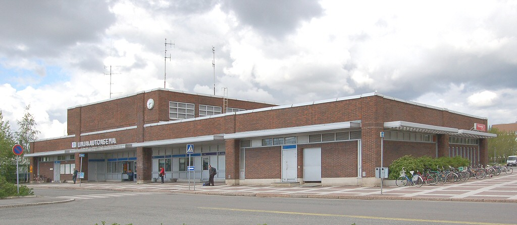 Oulu bus station in Raksila, Oulu, Finland